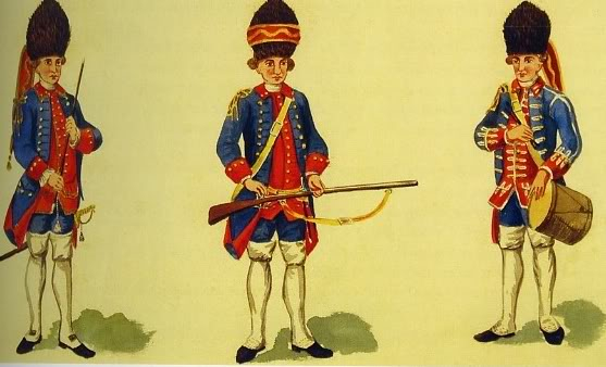 Grenadiers of the second auxiliary tercio of Porto. Portugal. 1762.